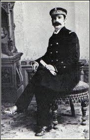 Image of Admiral Hammerton Killick of Haiti. Died in 1902.